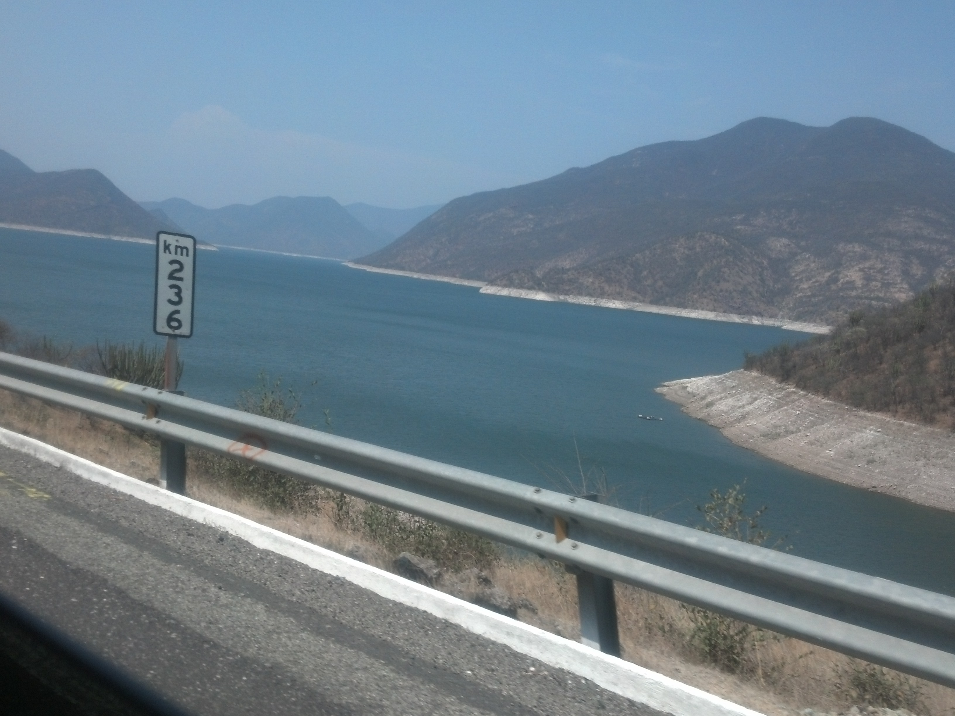 Río Balsas desde la autopista Siglo XXI en Michoacán, México.